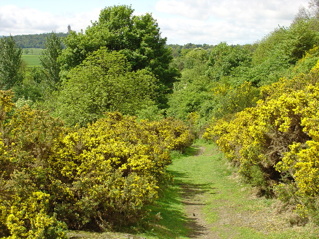 Old Drovers Path at Cotkerse near Blairlogie